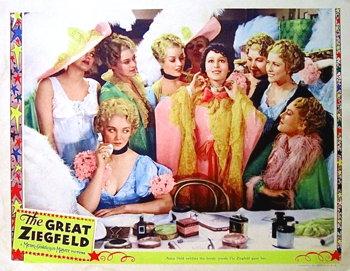 Lobby card from the American film The Great Ziegfeld (1936).